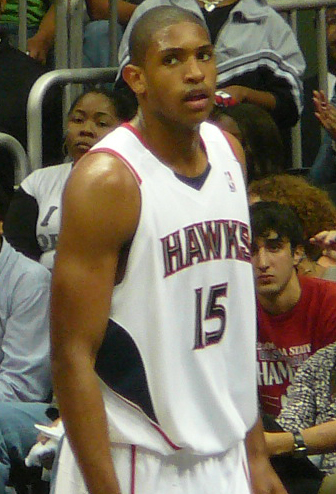 User:Chrisjnelson agreed to license this image of Al_Horford2.jpg under a free attribution license. Any use of this image must be attributed; this means that Photo by :en:User:Chrisjnelson|Chris Nelson should be in the picture caption.